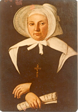 Émilie de Vialar's portrait, 19th cent.